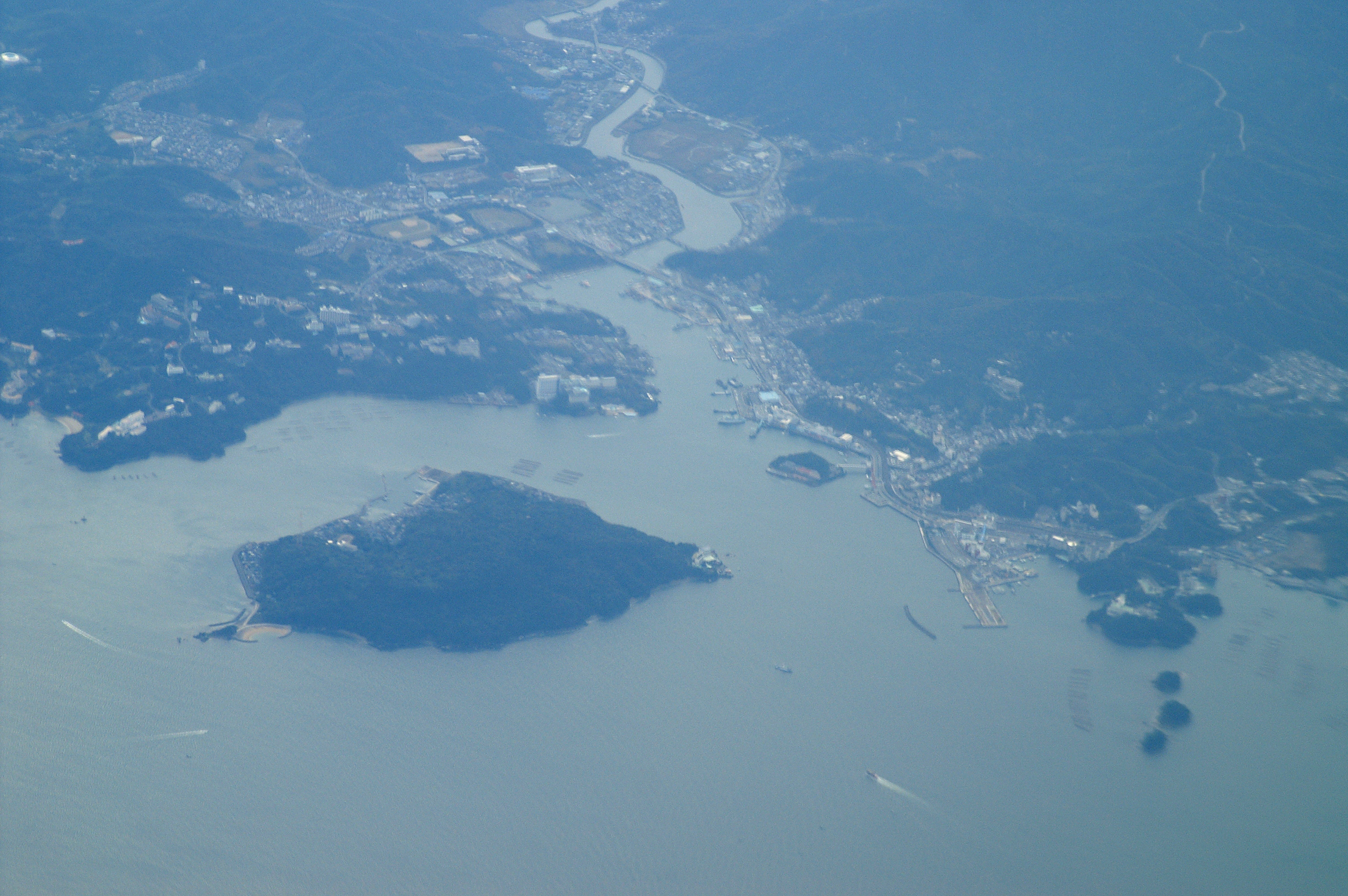 The Port of Toba, Mie, Japan. (2006/11/22 In Flight, NH143, JAPAN)